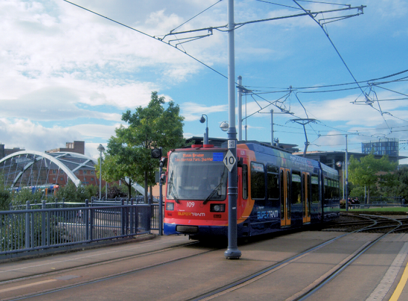 Sheffield Supertram 2010